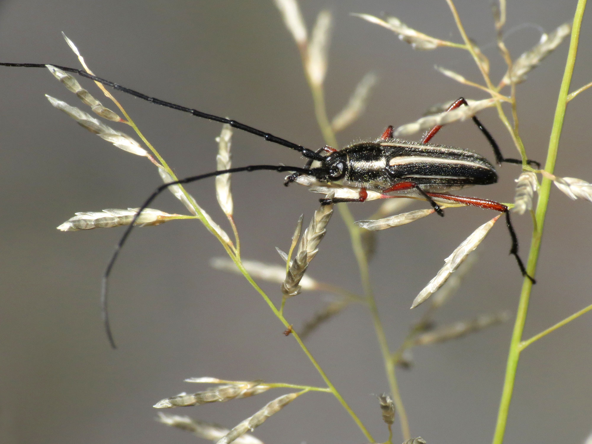 Sphaenothecus bivittata. Molino Basin, Santa Catalina Mountains, Pima County, Arizona, USA. 17 September 2012